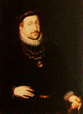 Edzard II. Cirksena, unsigned portrait. See this article on the image's restoration for further information (in German).